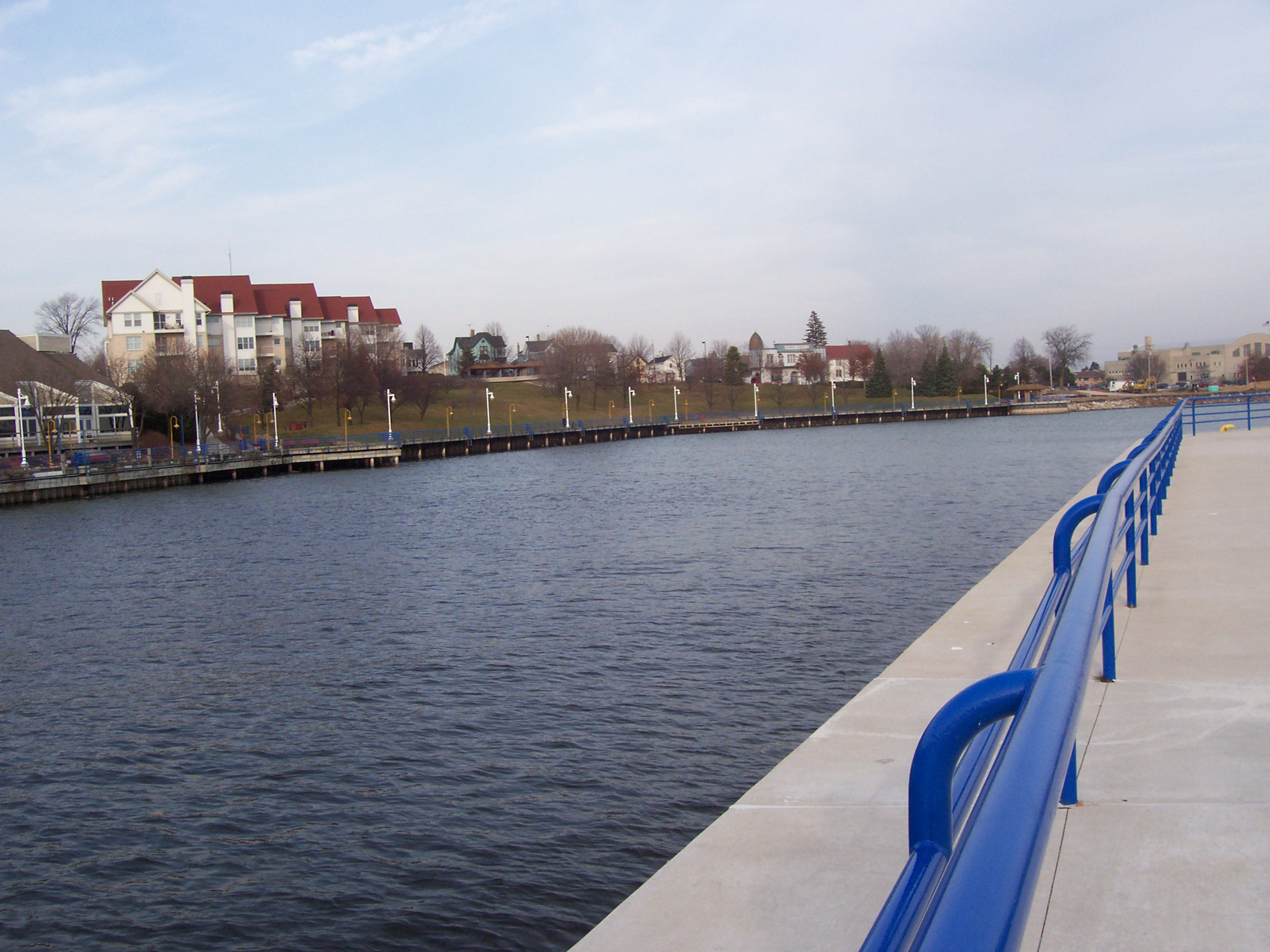 The Sheboygan River in downtown Sheboygan, Wisconsin, USA. The area is locally referred to as the Riverfront, and the walking area as Riverwalk. The tan building on the far right is the Sheboygan Auditorium and Armory.